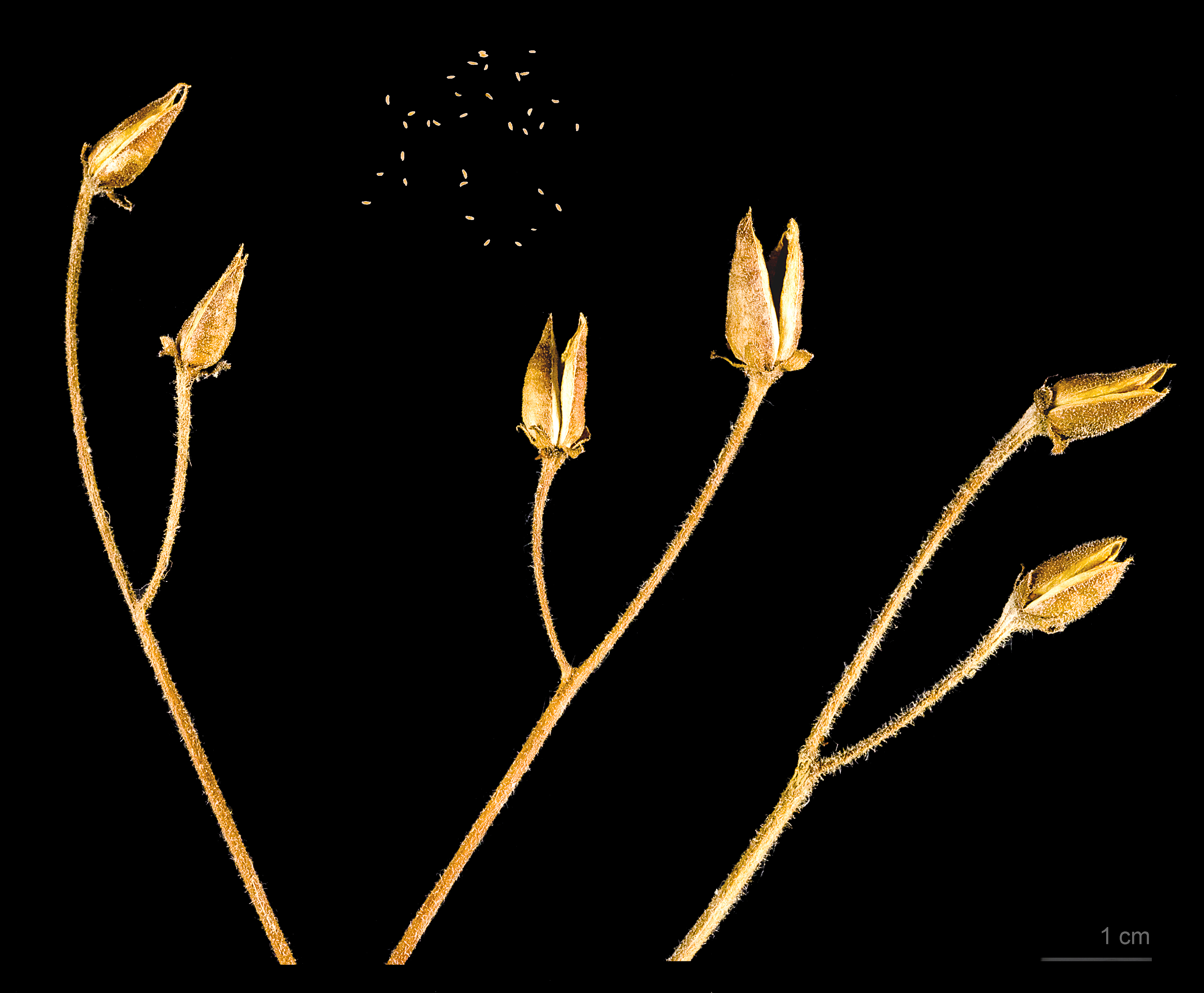 Ramonda myconi , fruits and seeds